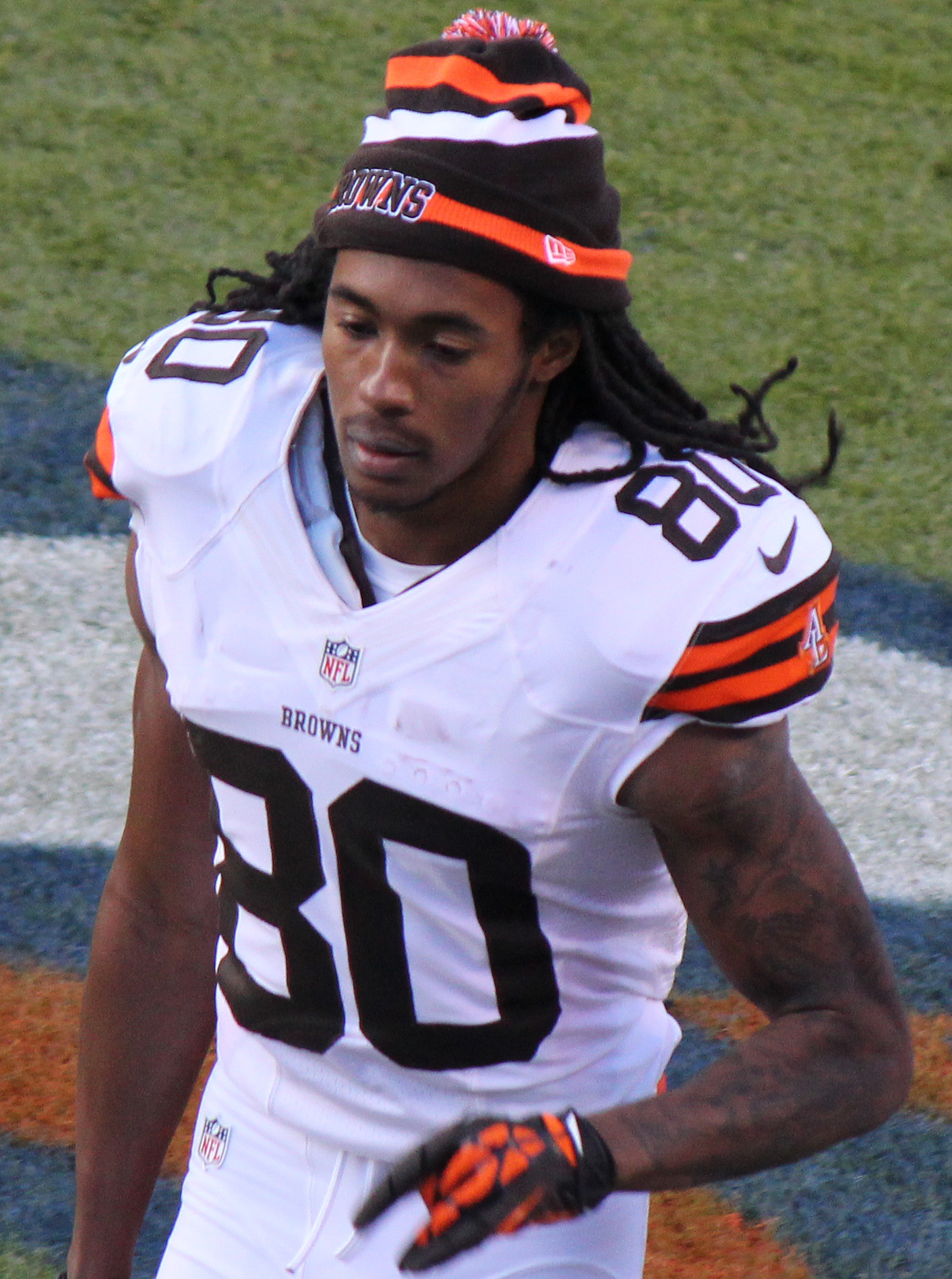 Travis Benjamin, a player on the National Football League.